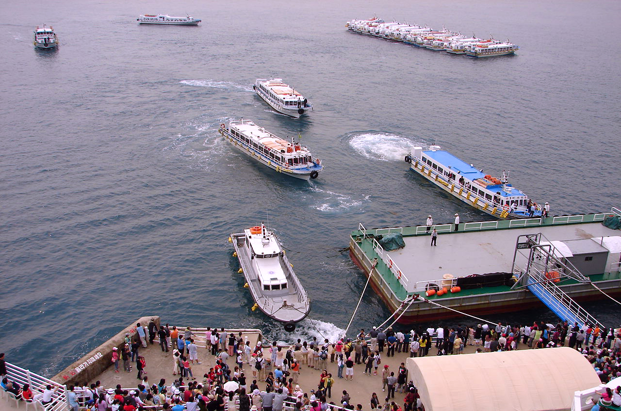 Oedo is a western-style island botanical garden built 1969 by Lee Chang-ho and his wife, in Hallyeo Haesang National Park (national marine park), in what is part of Geoje city, Gyeongsangnam-do, South Korea. The island is home to more than 3,000 plant species, many quite rare, like Agave Americana, Rose of Sunshine, Windmill Palms, C.peruvianus (a kind of cactus), and includes many other subtropical plants, like cactus, palm trees, gazania, eucalyptus, bottlebrush bush, New Zealand flax, and agave. Oedo has a coastal climate with mild subtropical weather.